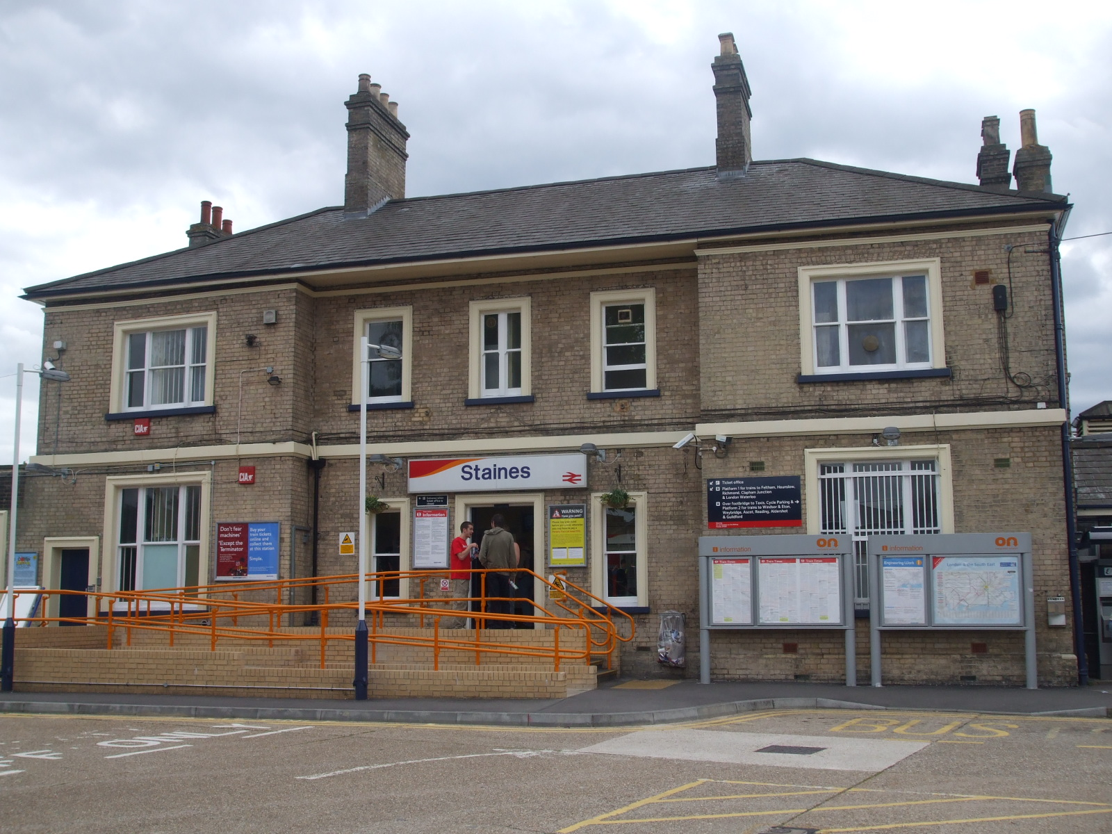 Staines station northern building, on the London-bound side